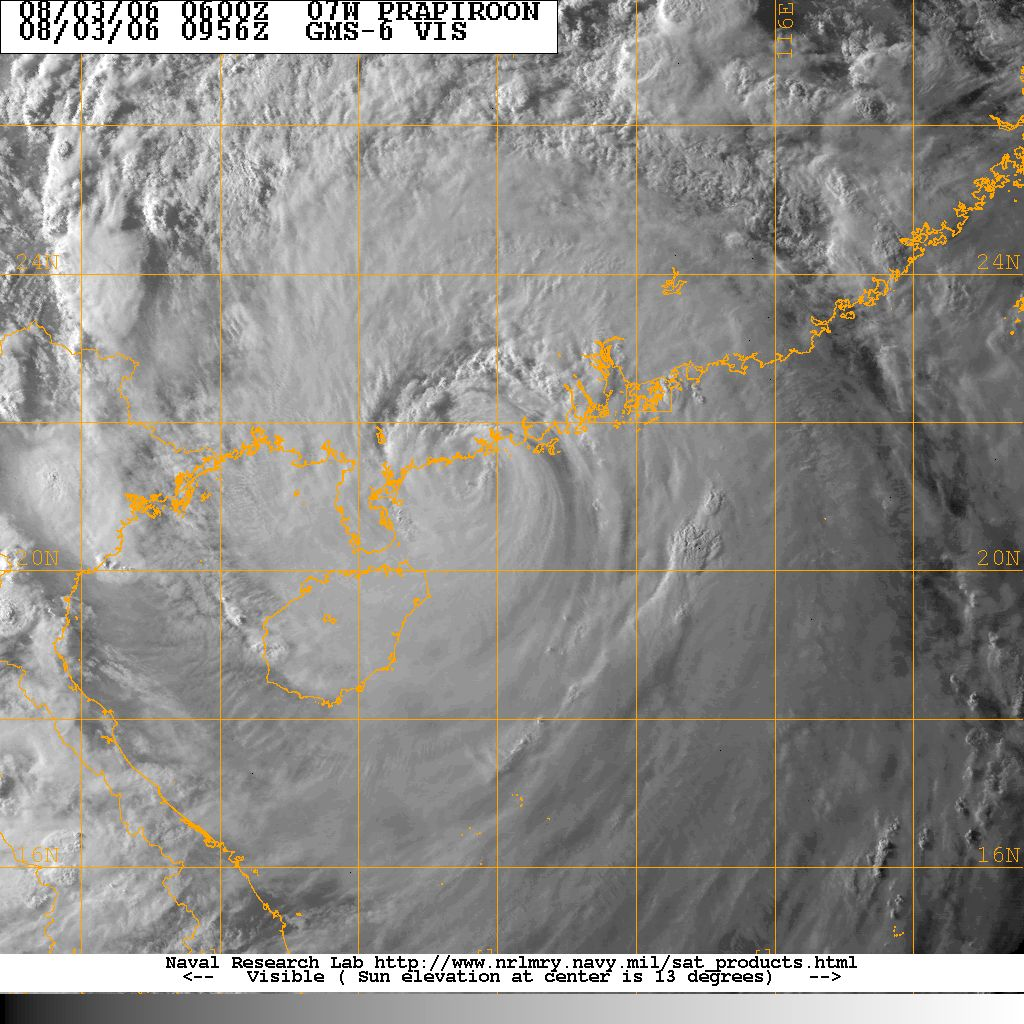 Typhoon Prapiroon making landfall in southern China on August 3, 2006 at 9:56 UTC